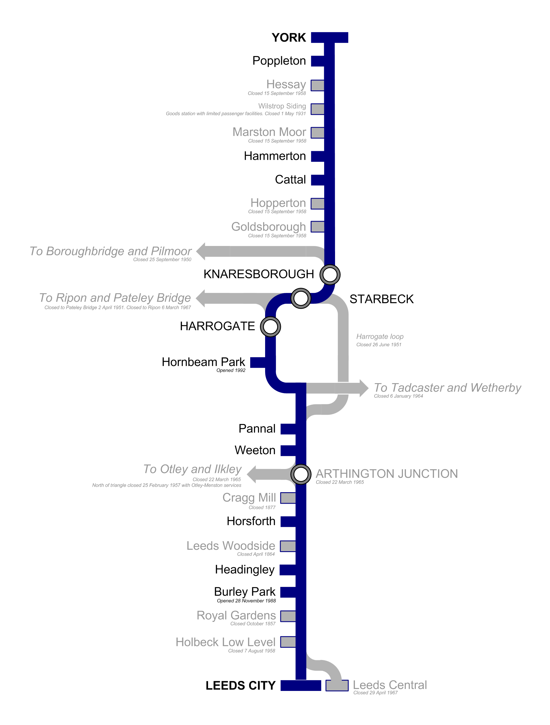 British Rail York to Leeds line via Harrogate diagram map, with closed stations and lines indicated.